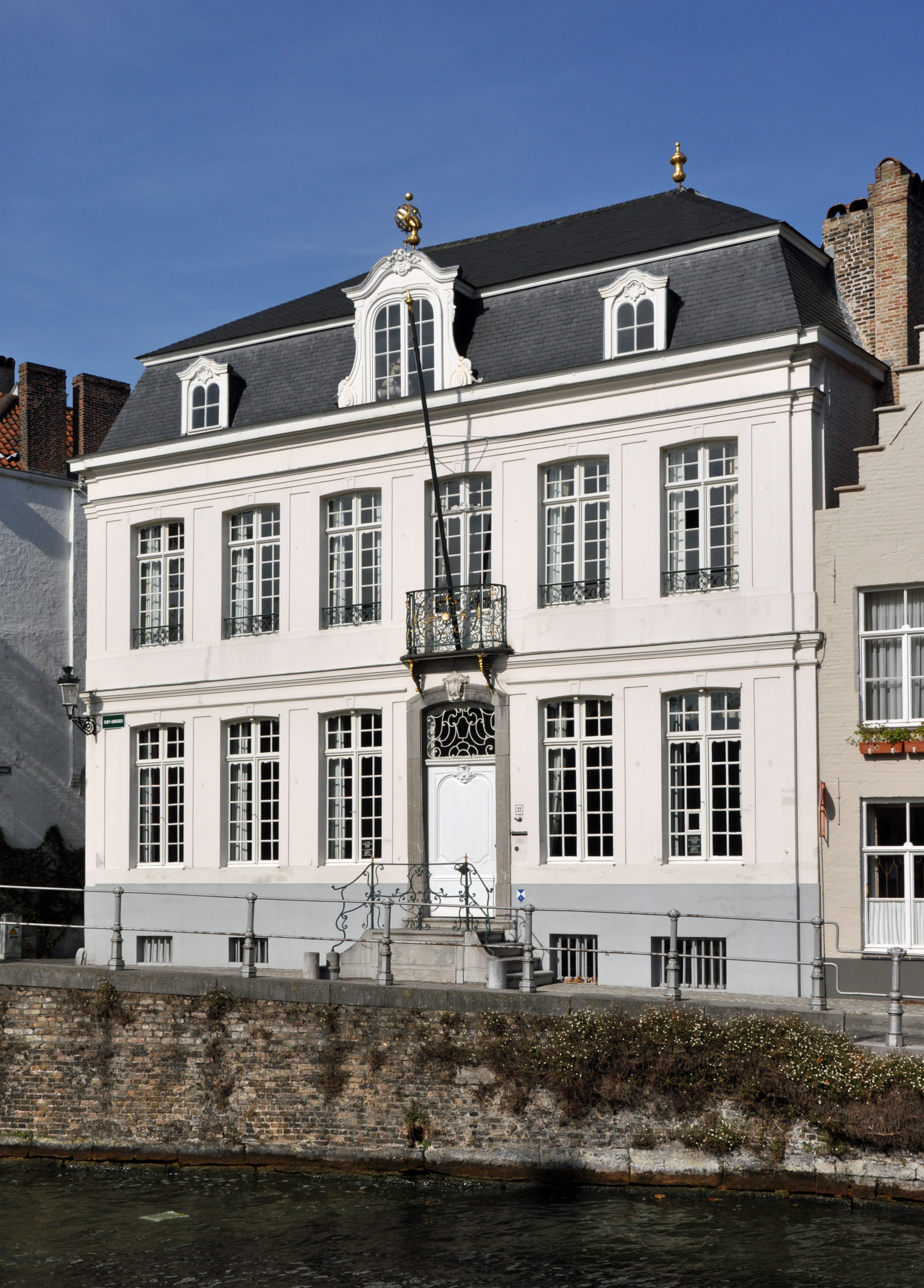 Bruges (Belgium): house Sint-Annarei 22